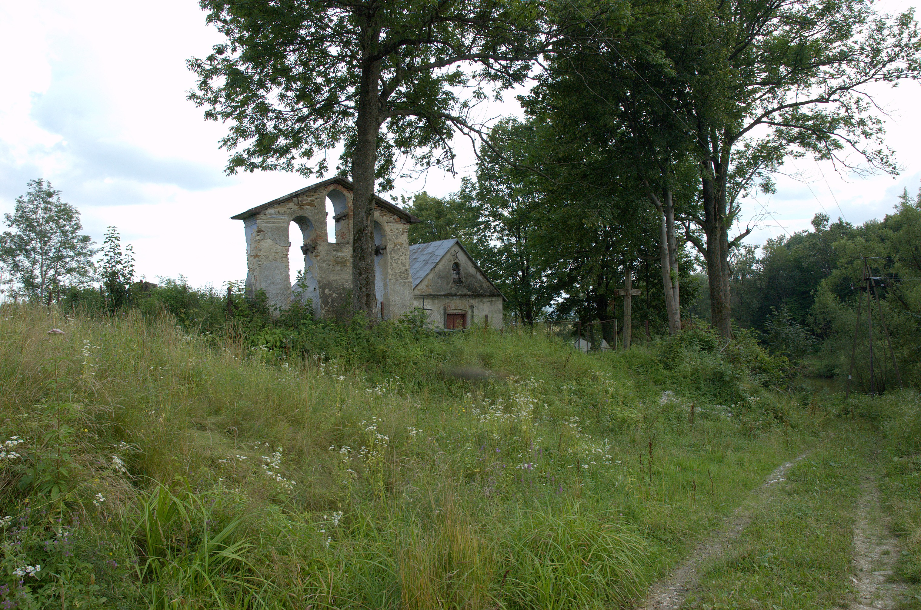 Greek Catholic church in Kopysno